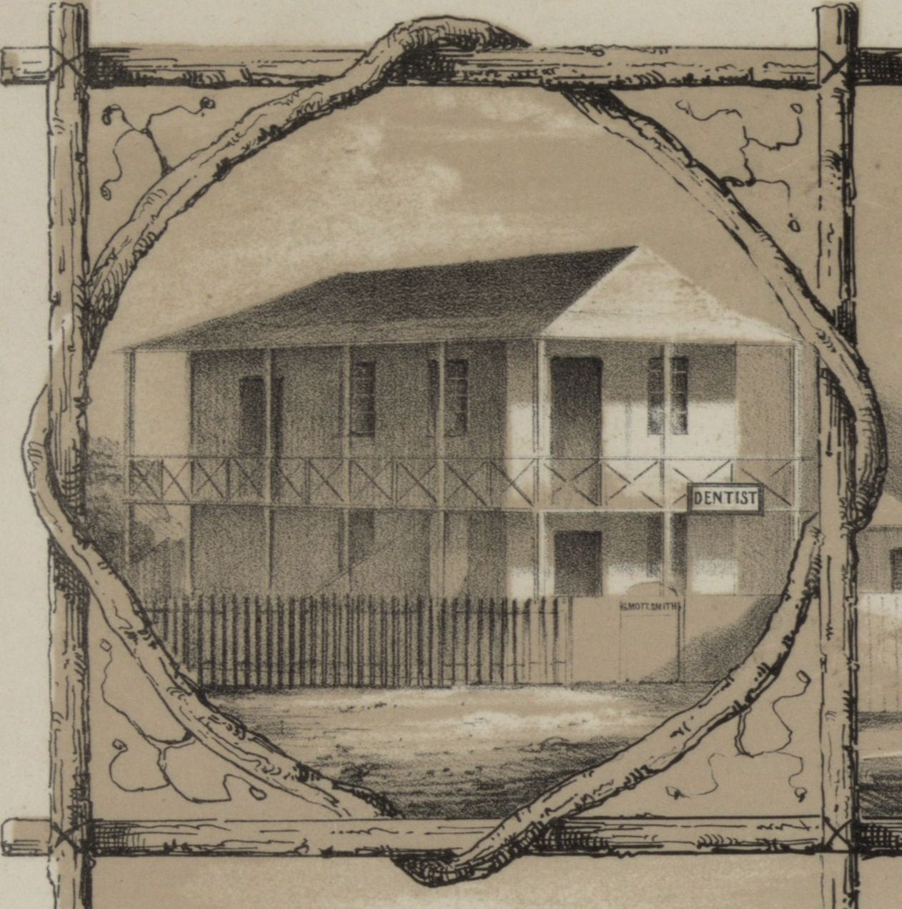 The first dentist office in Hawaii, 1853. John Mott-Smith (1824–1895) later becamea politician and diplomat.